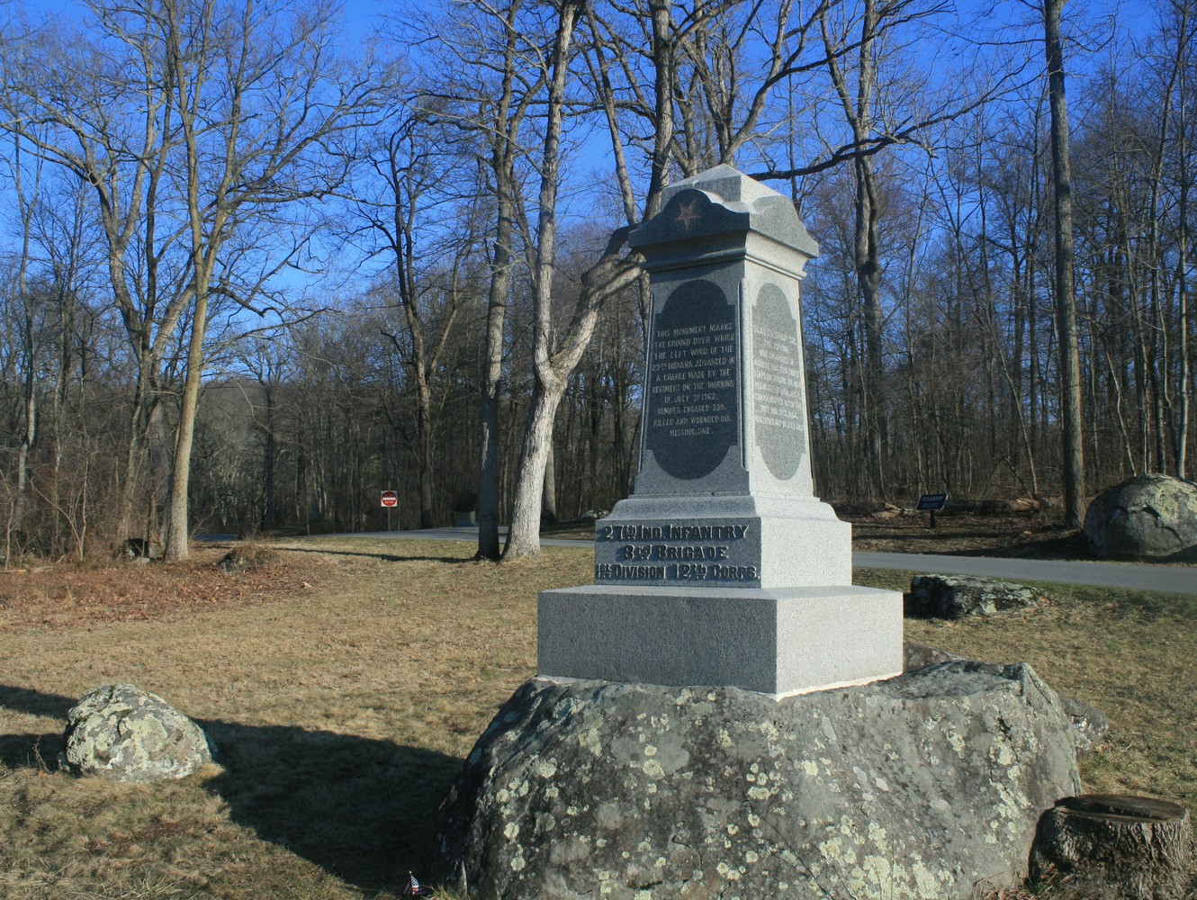 Gettysburg, monument of 27th Indiana Infantry Regiment near Culps Hill.